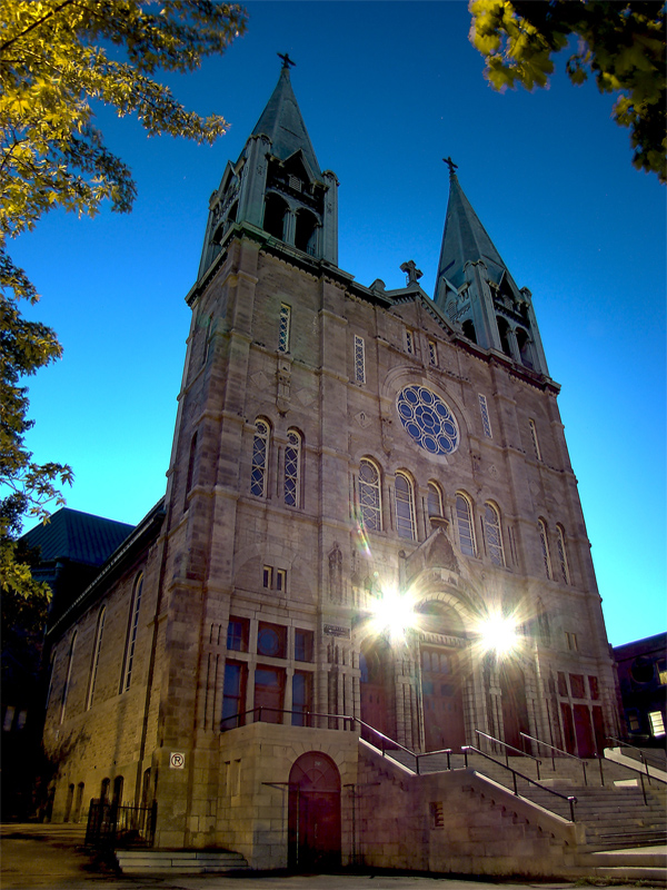 Church of Très-Saint-Nom-de-Jésus, Montreal, Quebec, Canada.